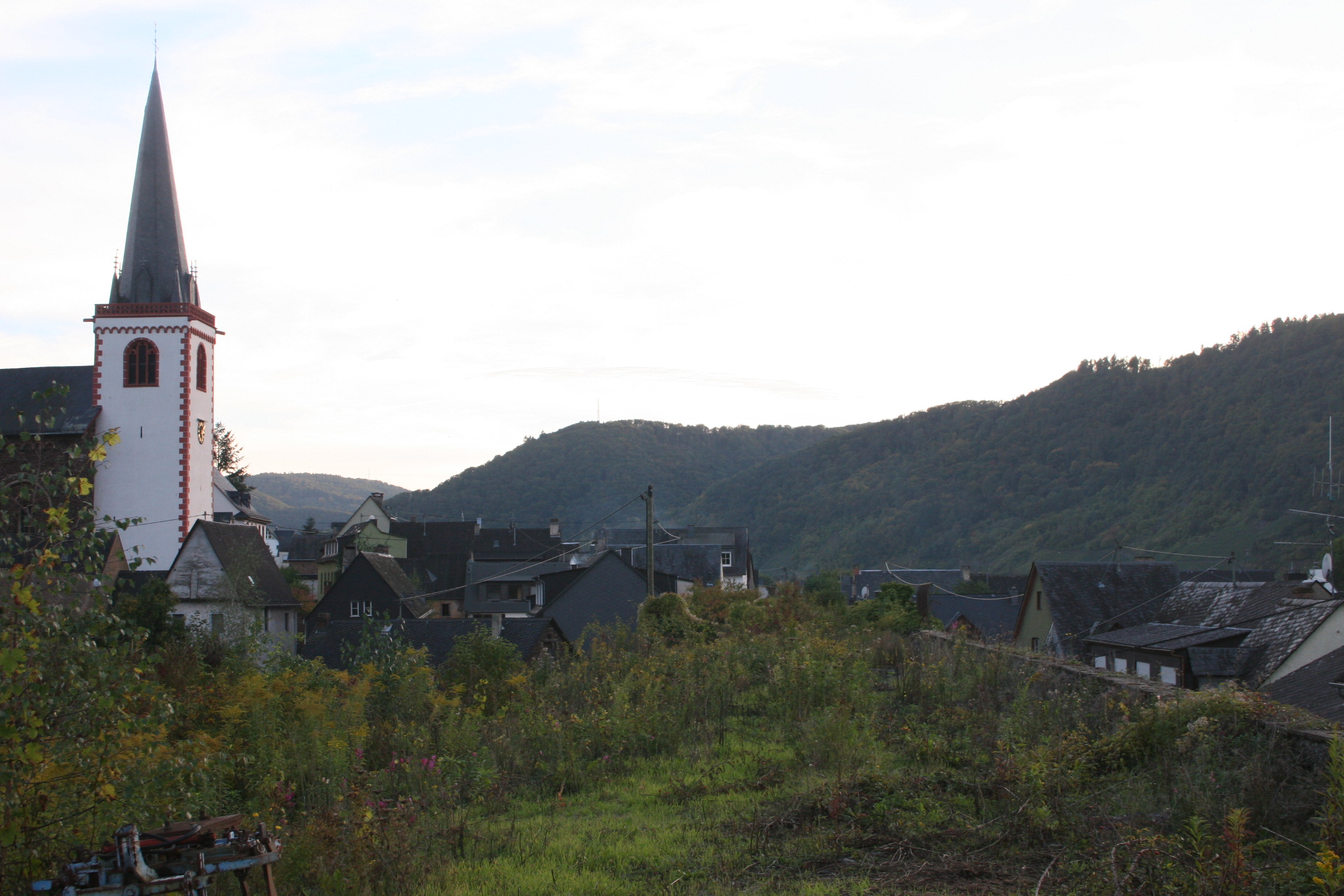 Top of the railway dam in Bruttig on the Mosel river. Remnant of a planned and partially built, but never completed strategic railway.